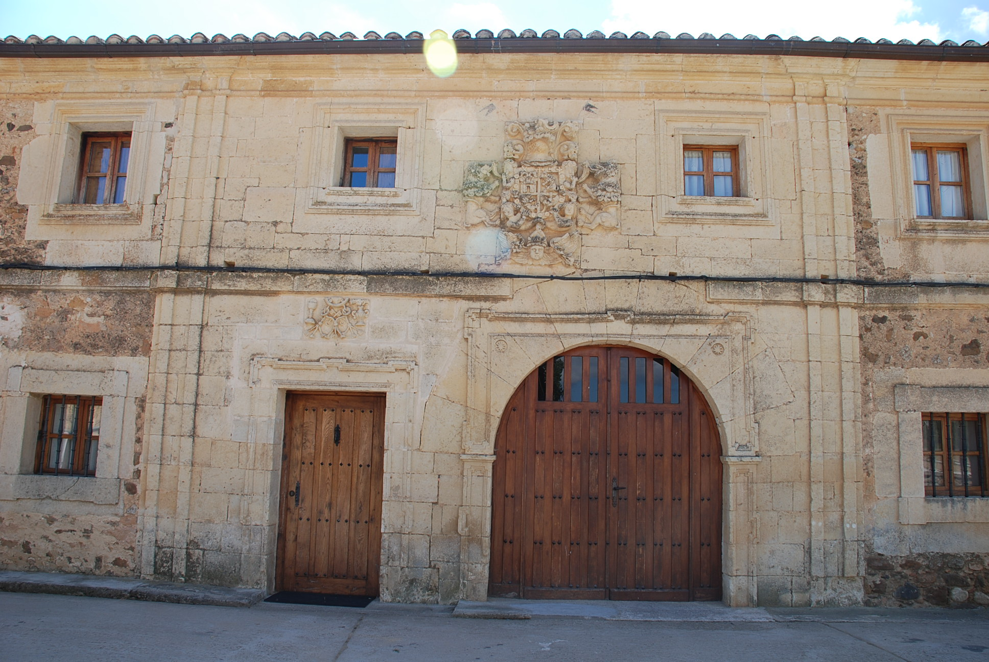 Manor house dated at XVIIth century, at Cantones street in Barajores de la Peña (Palencia, Spain). Currently this house has been recicled into a Rural Tourism House called "Casa Isabel". This mansion was a property of Marques de la Valdavia.